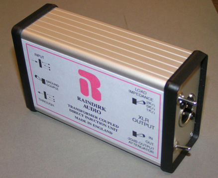 This image was taken by the designer of this particular DI Box, Cyril Jones of Raindirk Audio. The image has been passed on to me for open distribution. --DavidP 21:04, 6 July 2006 (UTC)